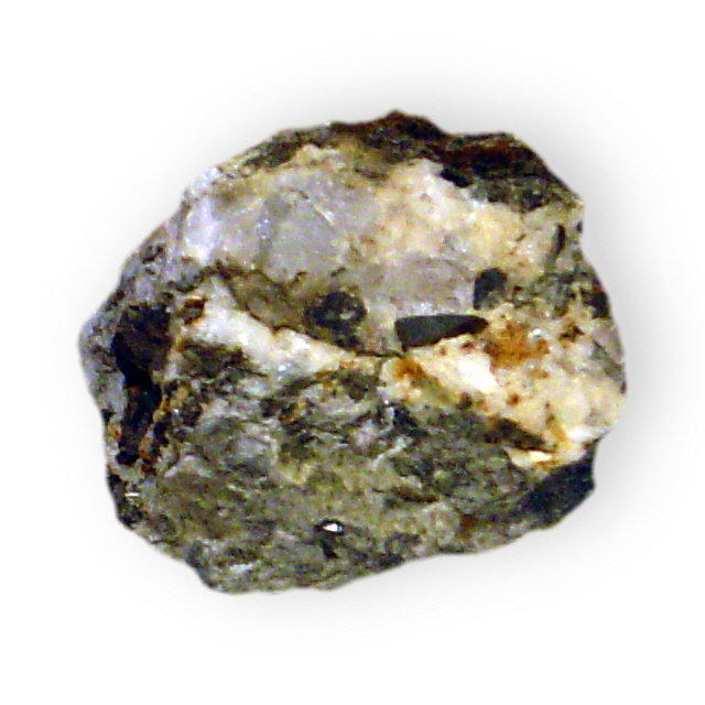 Arsenopyrite in rock Iron sulfarsenide. Locality:, California. These mineral images are free to use how you wish.